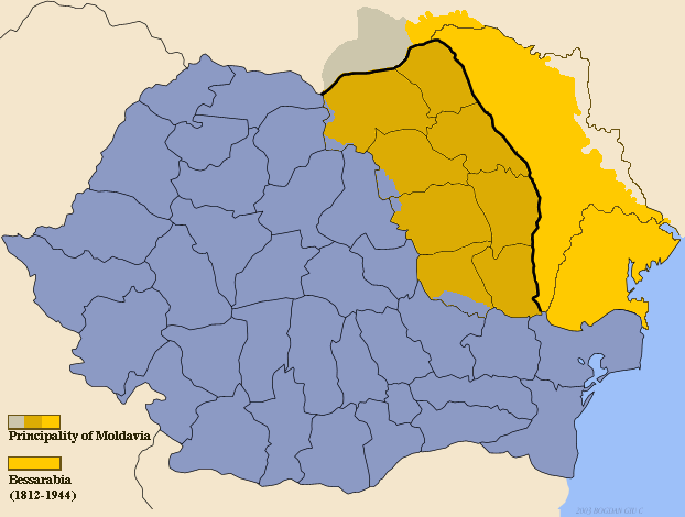 Own work. Map highlighting Bessarabia.